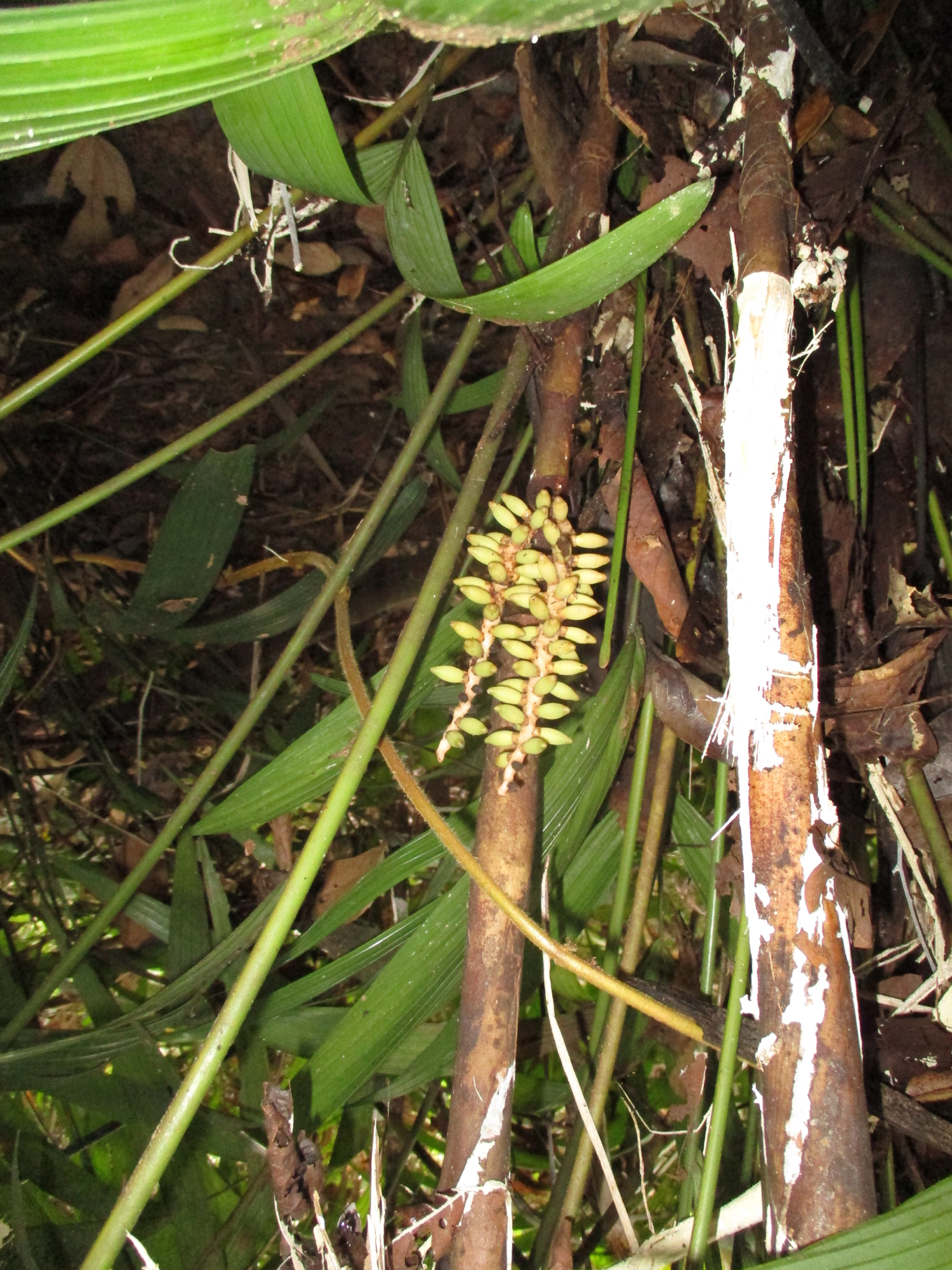 Pinanga cattienensis from Cat Tien National Park by Roy Bateman